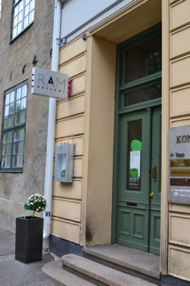 RAM galleri, Kongensgate 3 i Oslo